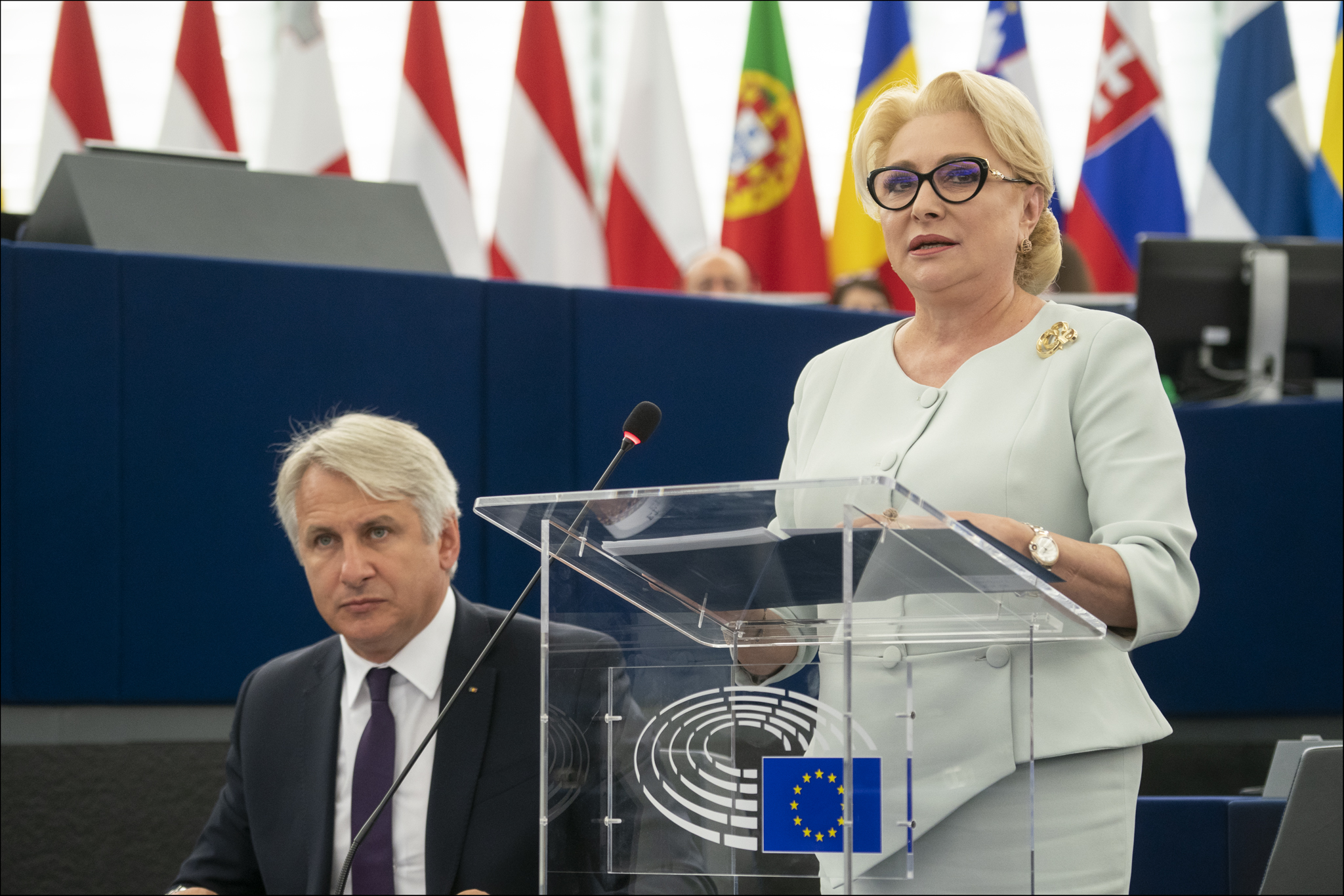 In a debate on Tuesday 16/07 afternoon, MEPs assessed the work of the outgoing Romanian Presidency of the Council with Prime Minister Viorica Dăncilă. More on: This photo is free to use under Creative Commons license CC-BY-4.0 and must be credited: "CC-BY-4.0: © European Union 2019 – Source: EP". No model release form if applicable. For bigger HR files please contact: webcom-flickr(AT)